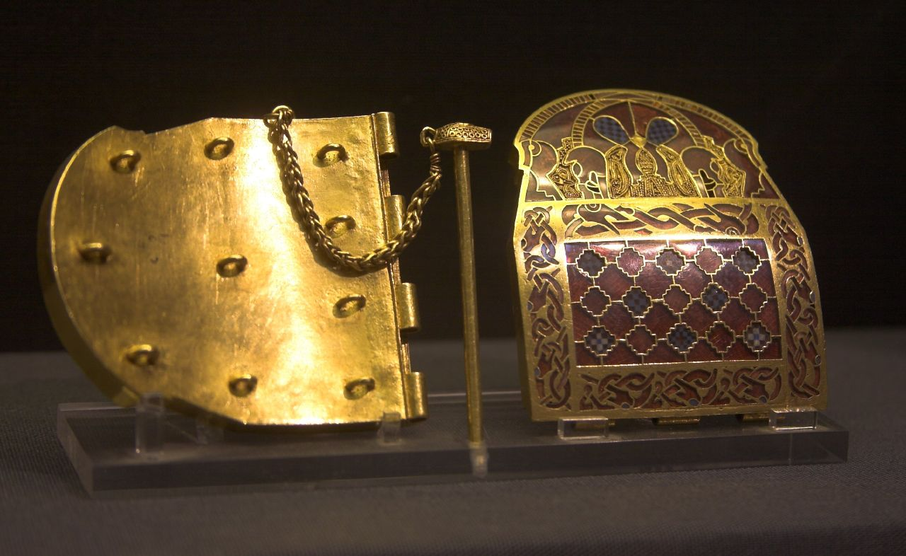 Shoulder clasp (open) from the Sutton Hoo ship-burial 1, England. British Museum.